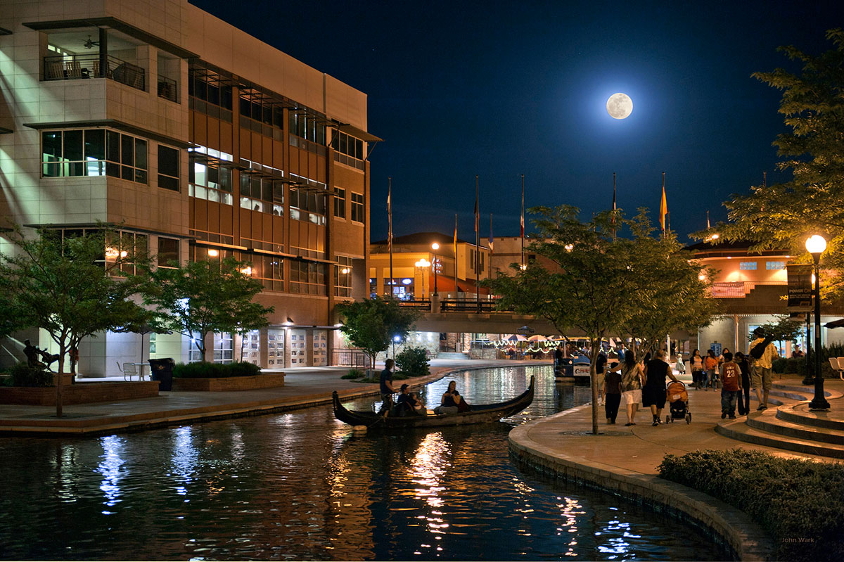 View of Historic Arkansas Riverwalk of Pueblo (HARP) with super moon.